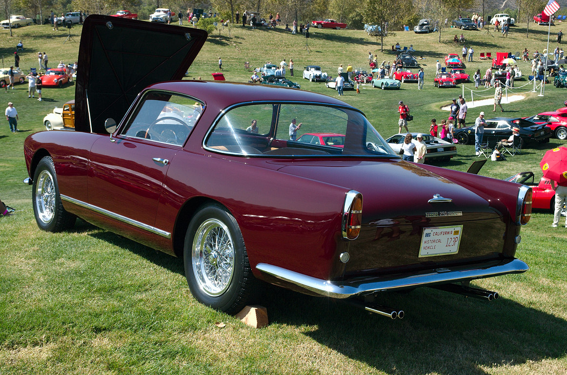 Ferrari 250 Granturismo Ellena bodyed Boano